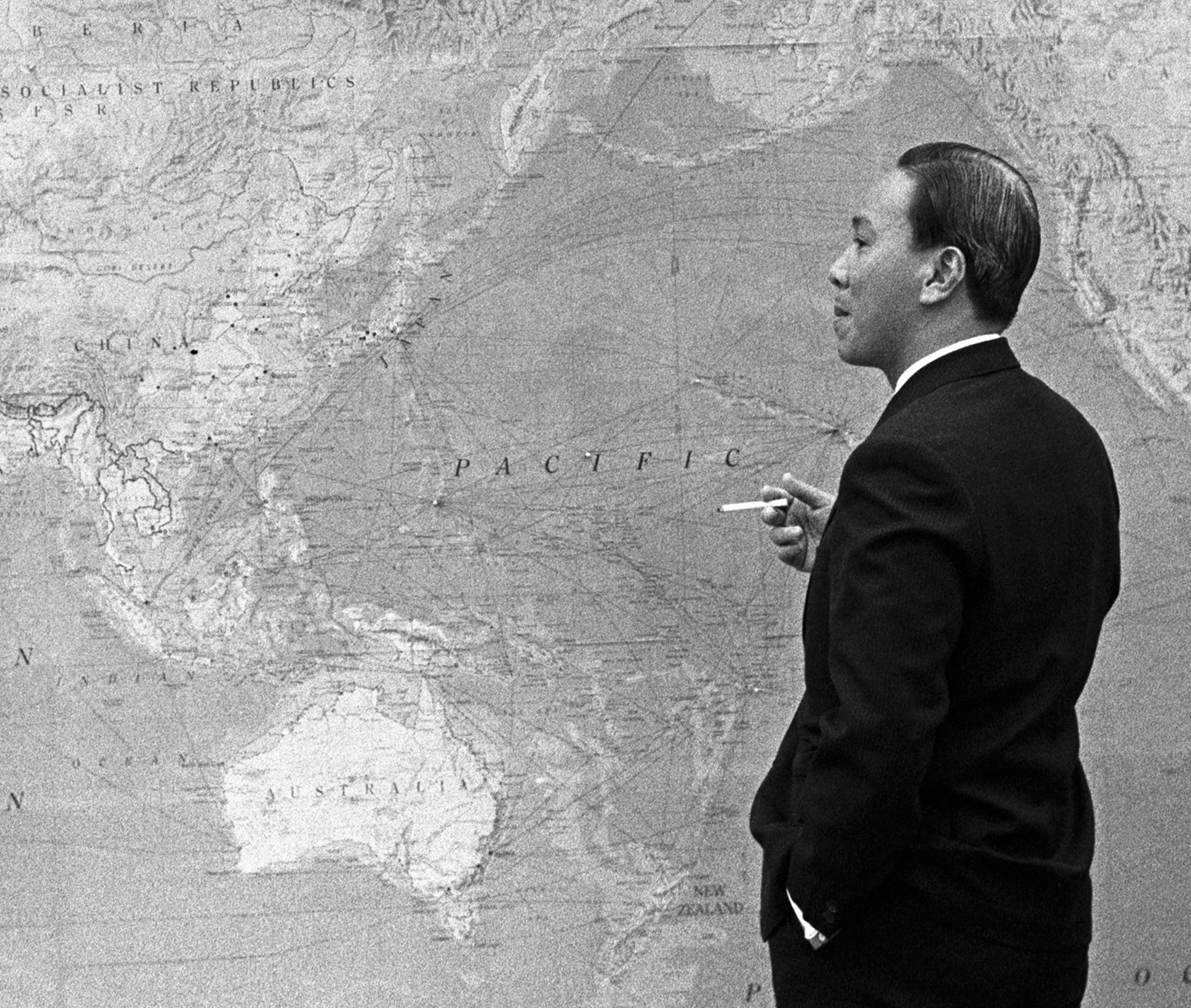 President Nguyen Van Thieu of South Vietnam standing in front of world map, during meeting with Lyndon B. Johnson in Hawaii